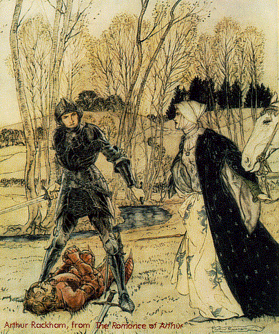 Sir Gareth Beaumain of Round Table battling the evil Red Knight while his Lady Lioness watching on.